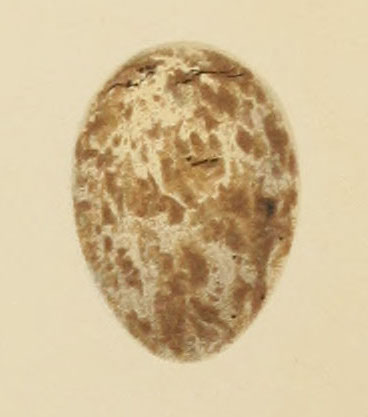 Painting of an egg of the Garden Warbler